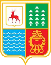 Vyksa (Nizhny Novgorod oblast), coat of arms